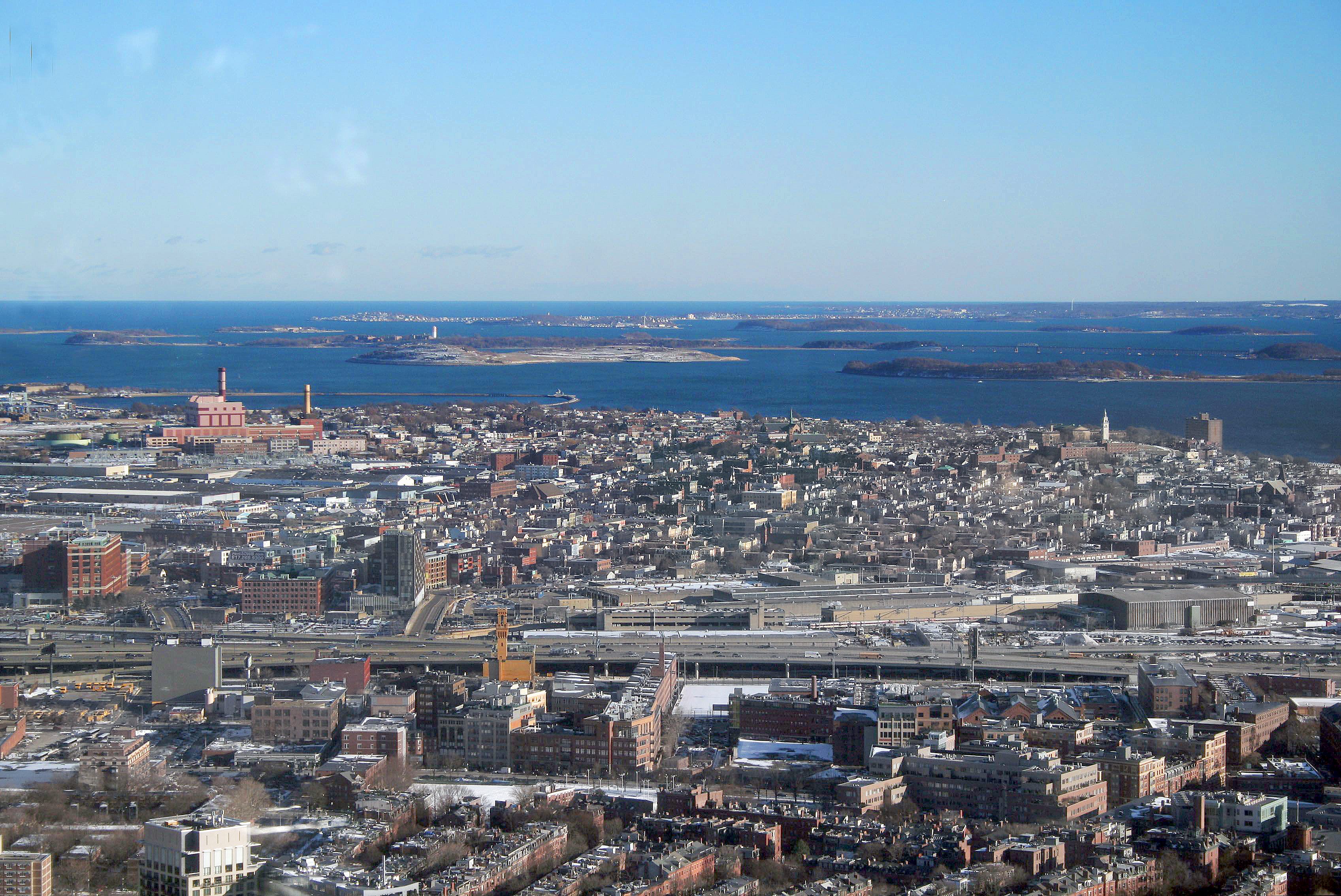 View of South Boston and Boston Harbor